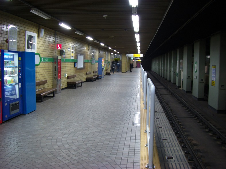 Bangbae Station